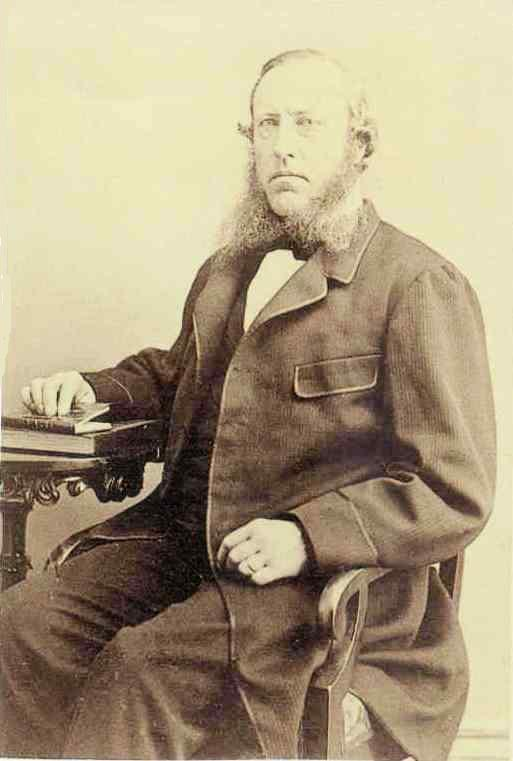 Henrik Ludvig Sundevall, Prussian rear admiral